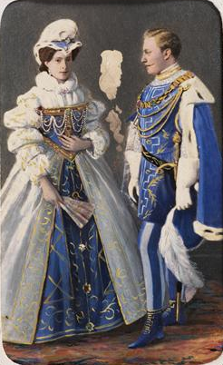 Queen Maria Pia and King Luís I of Portugal in a Masked Ball, 1865.